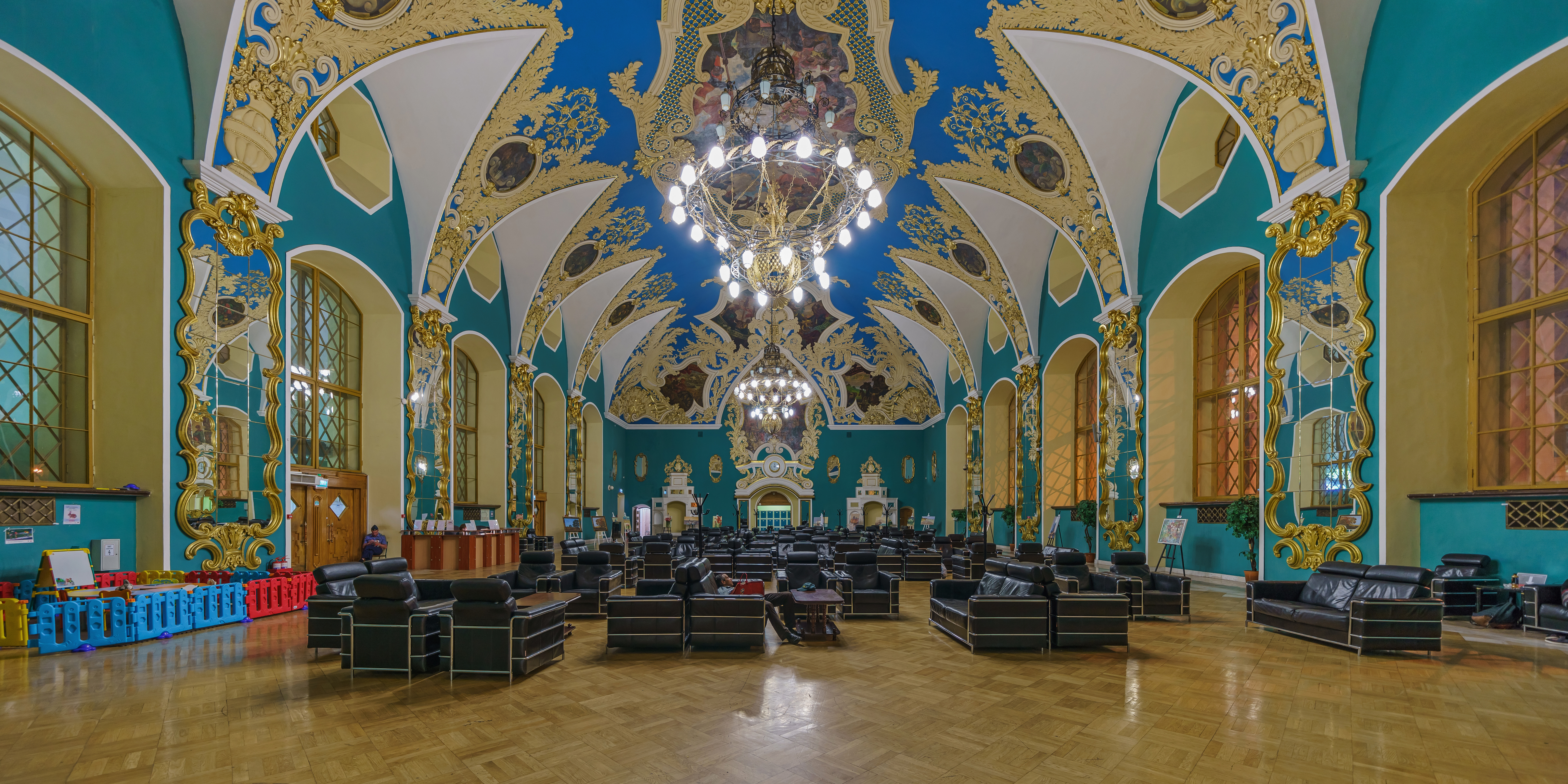 Interior of Kazansky railway terminal in Moscow, Russia. Former dining hall, now used as business lounge.